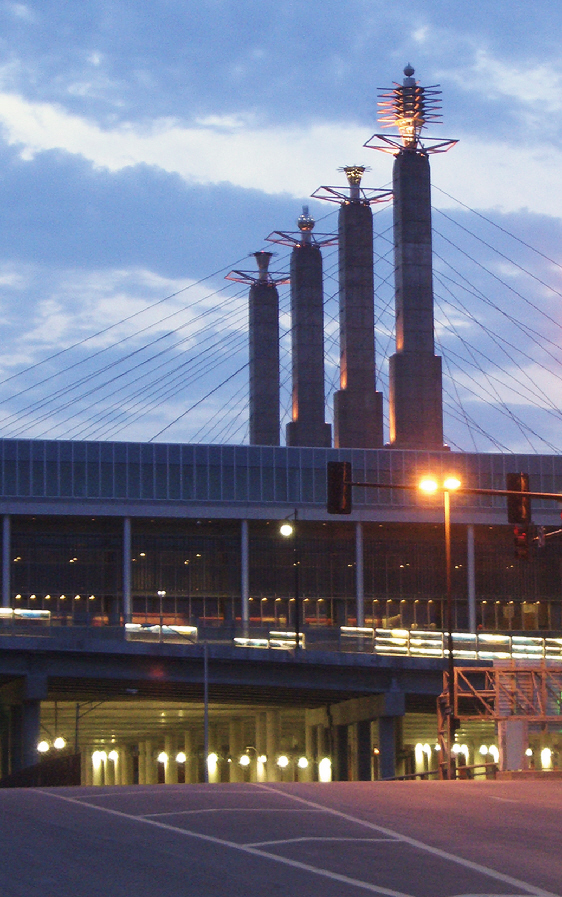 Bartle Hall Convention Center, "Sky Stations" by R.M. Fischer (1994), Kansas City, Missouri